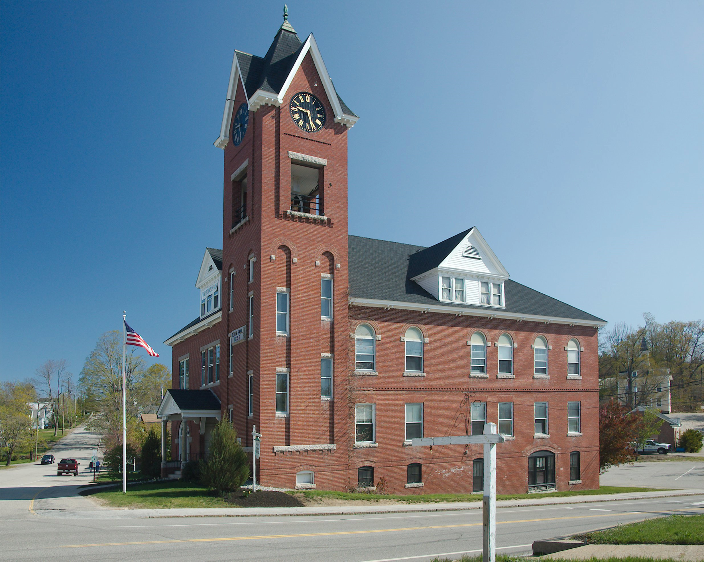 Town hall of Wakefield, New Hampshire. Plaque states it was built 1835.